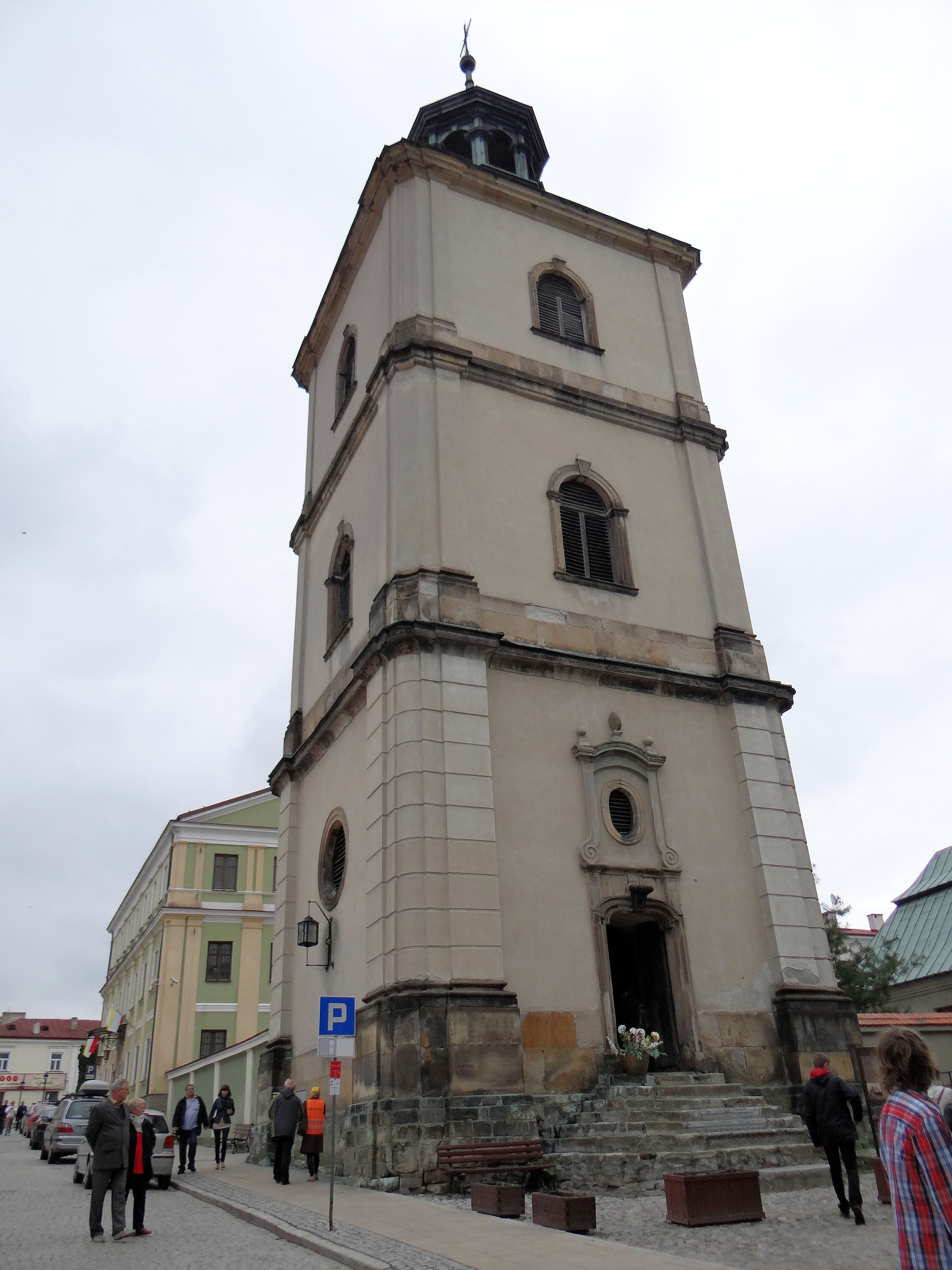 Bell Tower of Sandomierz Cathedral